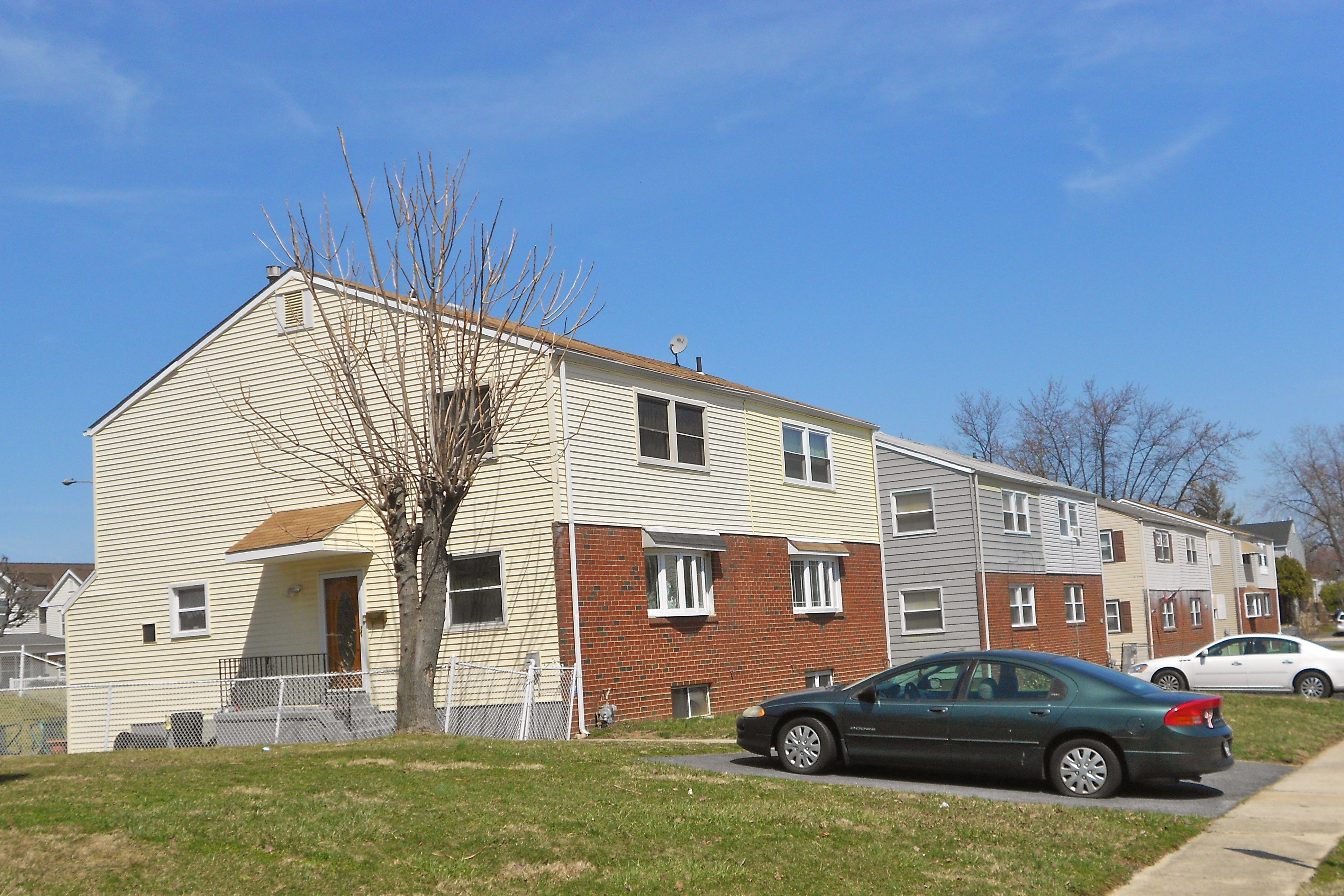 Houses in Chester Township, Delaware County, Pennsylvania